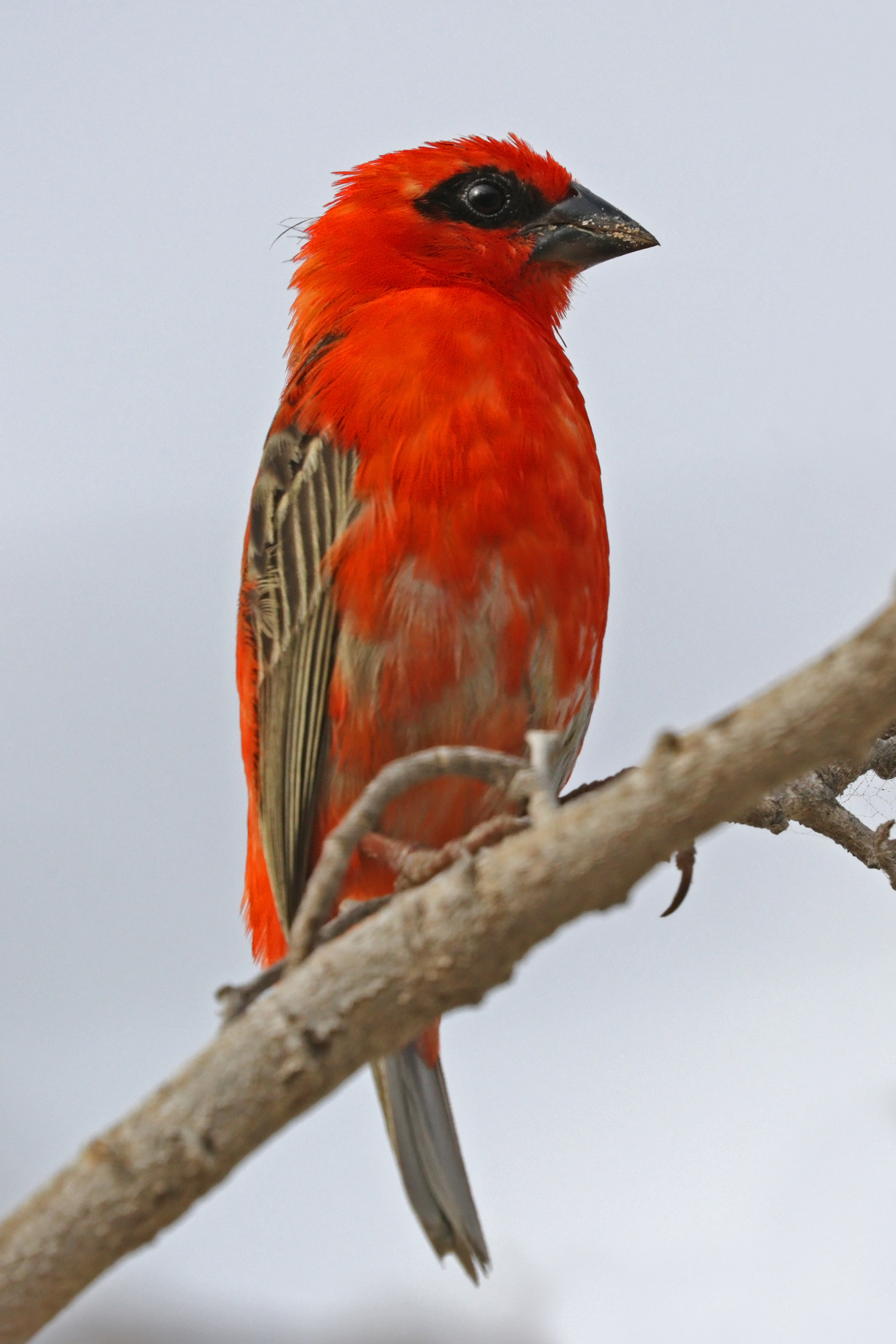 Madagascar fody (Foudia madagascariensis) male, transition into breeding plumage, Toliara, Madagascar